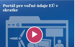 Screenshot from EUODP